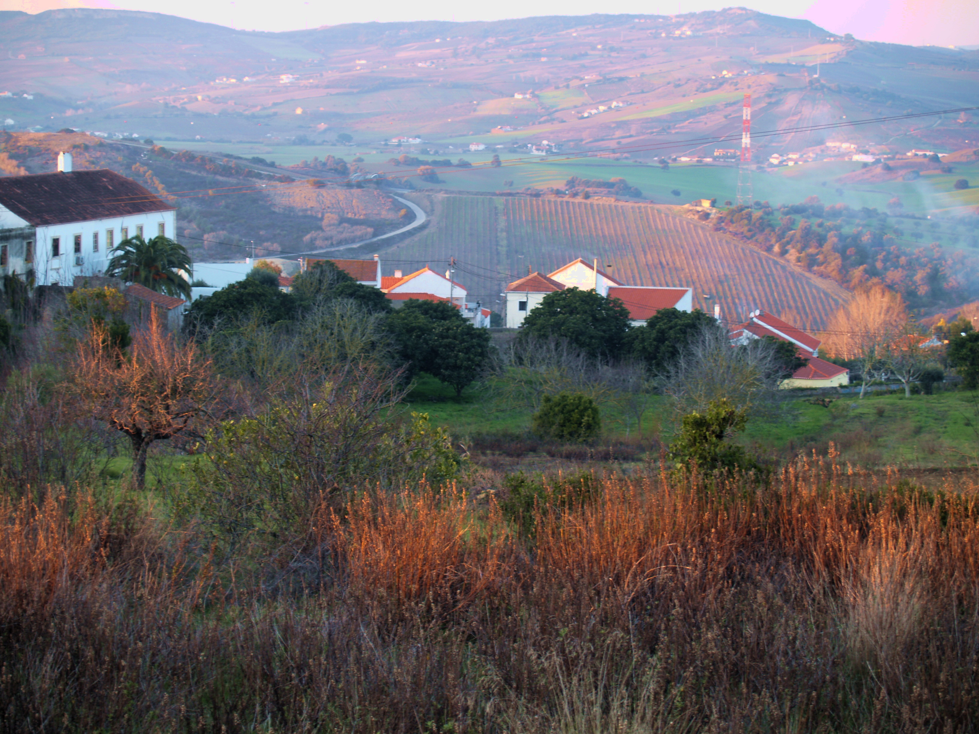 Cachoeiras, Vila Franca de Xira, Portugal.